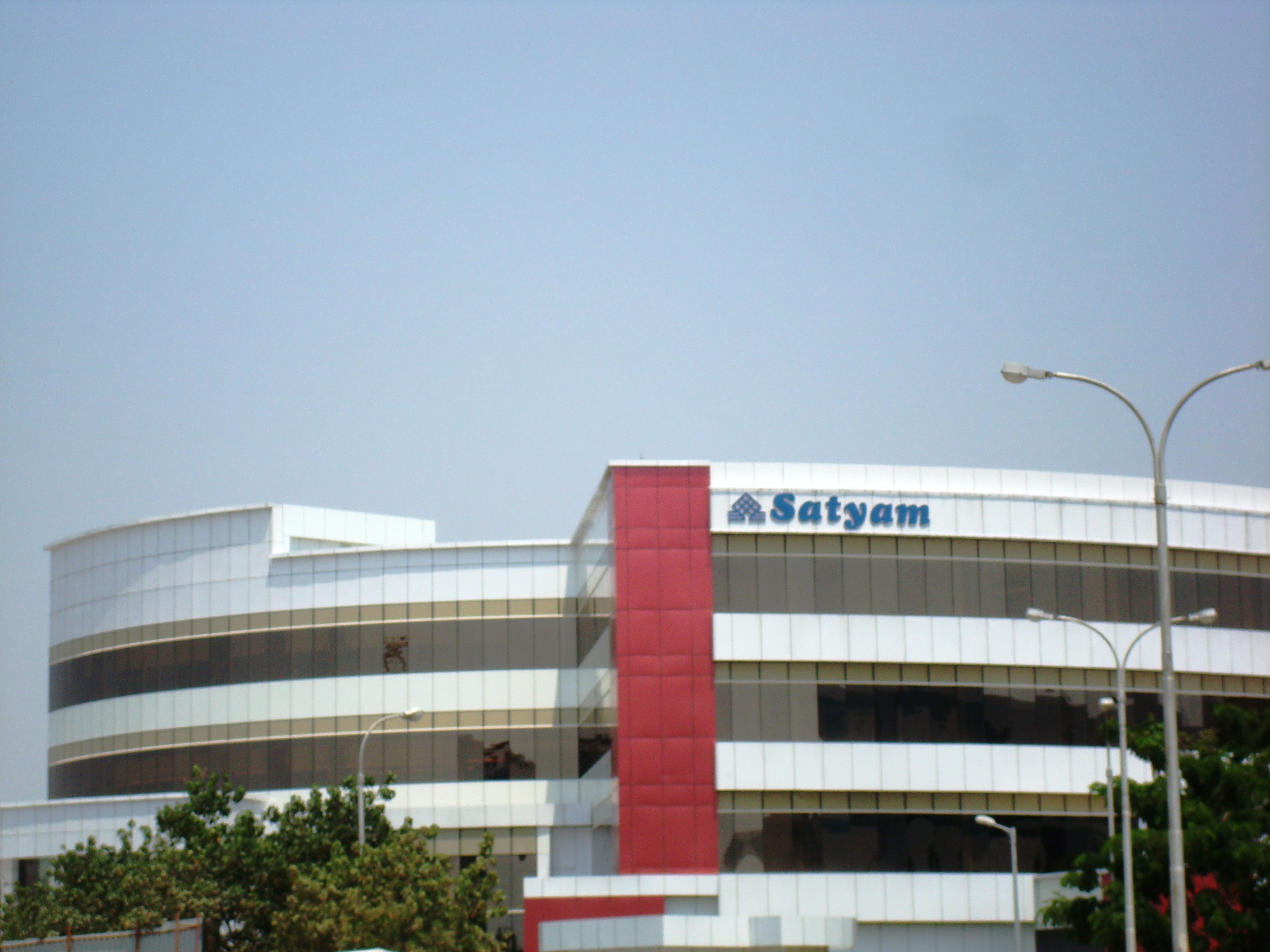 This image shows the Satyam IT campus located at Hitec city, Hyderabad.